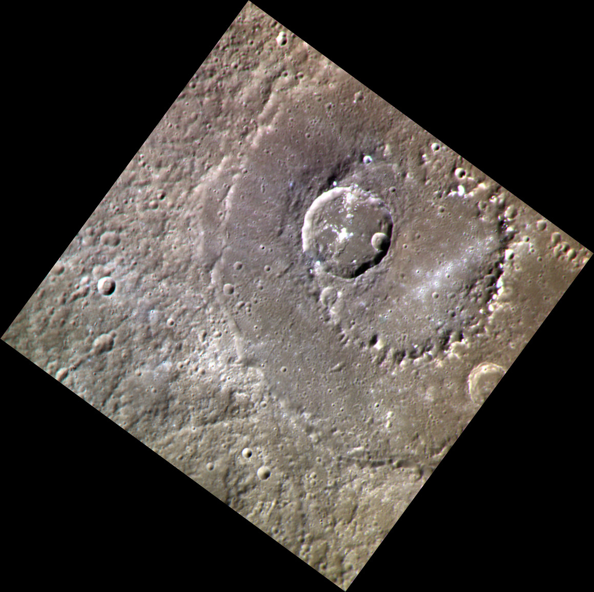 Most of Aksakov crater on Mercury. Approximate color representation combining three images acquired by MESSENGER Wide Angle Camera (EW1005917902I, EW1005917894G, EW1005917898F) with I (996.2 nm), G (748.7 nm), and F (433.2 nm) filters. Combined in GIMP software as RGB (Red-Green-Blue), and then rotated so that north is up. Statistics for I image: Emission Angle: 0.3 Incidence Angle: 49.7 Latitude: 34.5 Longitude: 279.9 Phase Angle: 49.5